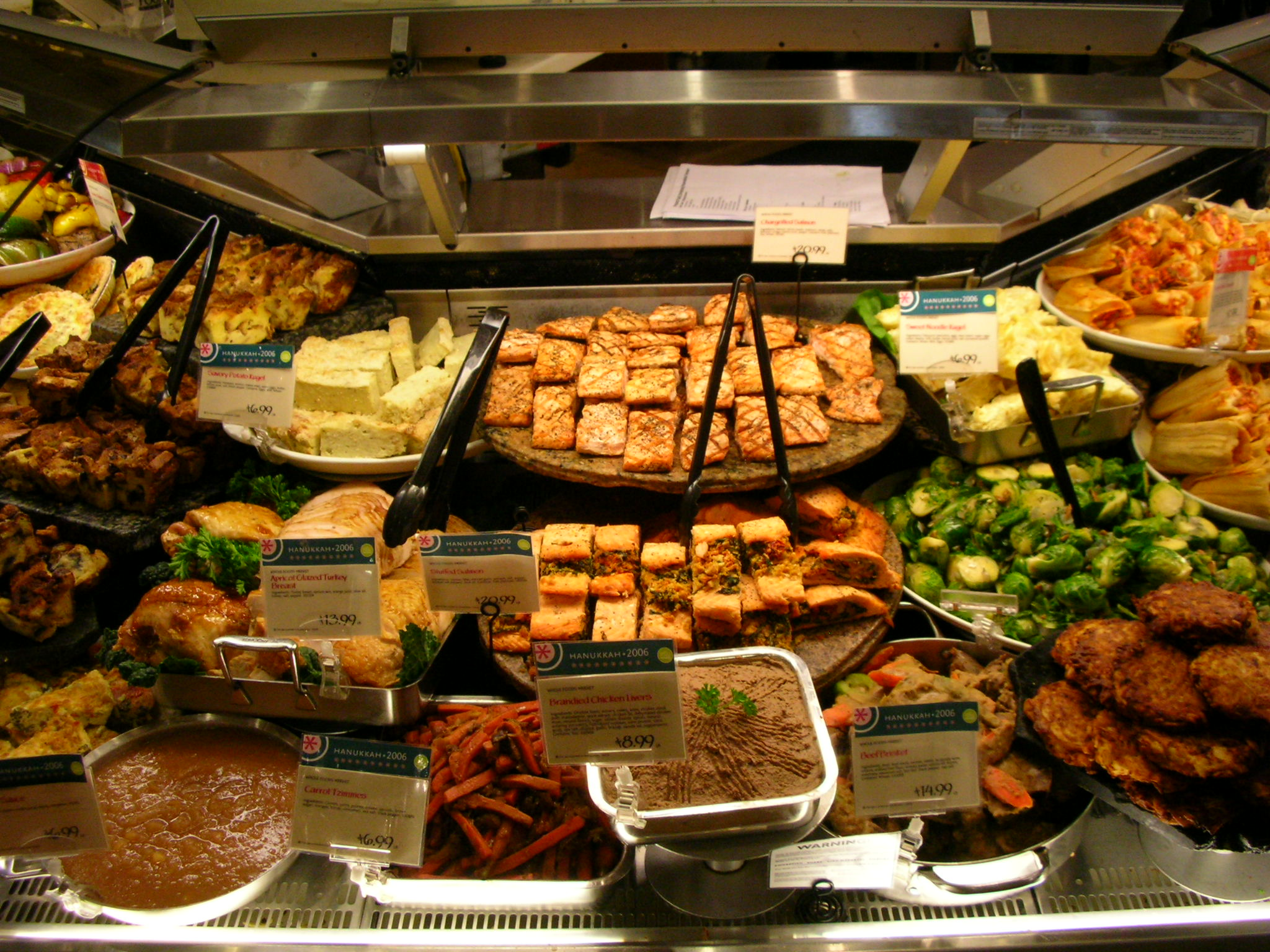 Potato Kugel Slices, Chargrilled Salmon, Noodle Kugel Slices, Apricot Glazed Sliced Turkey Breast, Stuffed Salmon, Brussels Sprouts, Apple Sauce, Carrot Tzimmes, Chicken Liver Pate, Beef Stew, and Potato Pancakes.